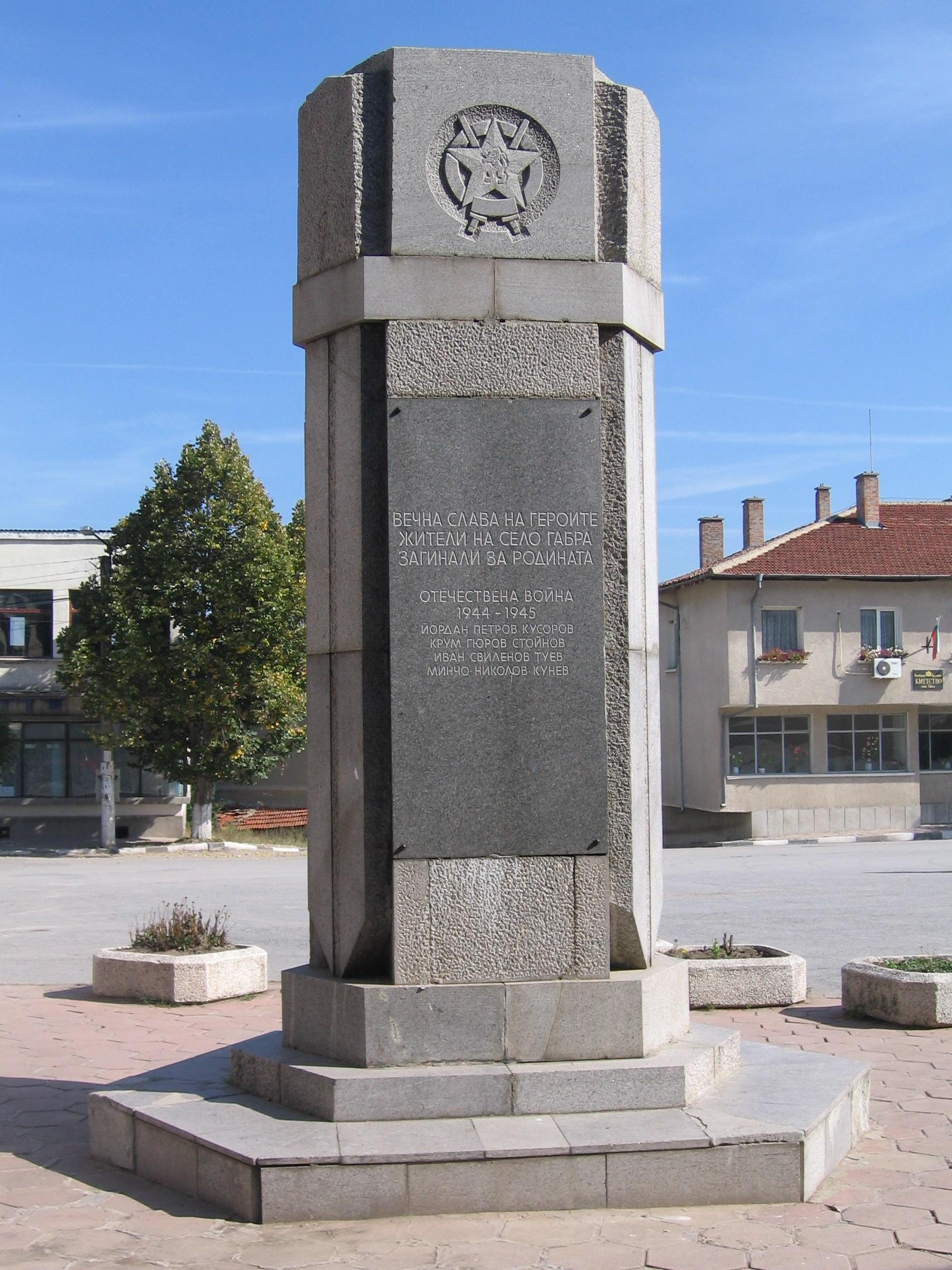 Monument to the people from village Gabra, Bulgaria, who sacrificed their lives in the wars for national liberation